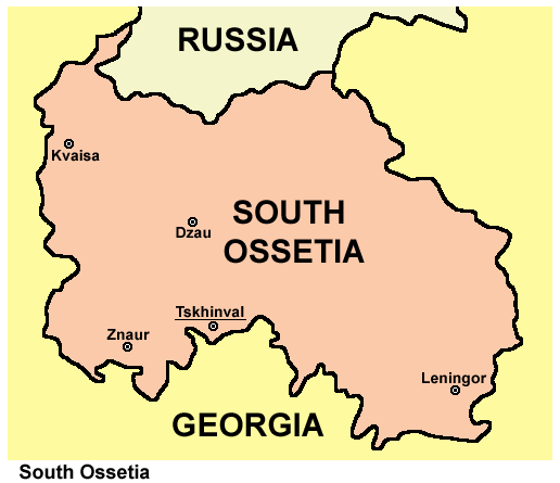 South Ossetia map.